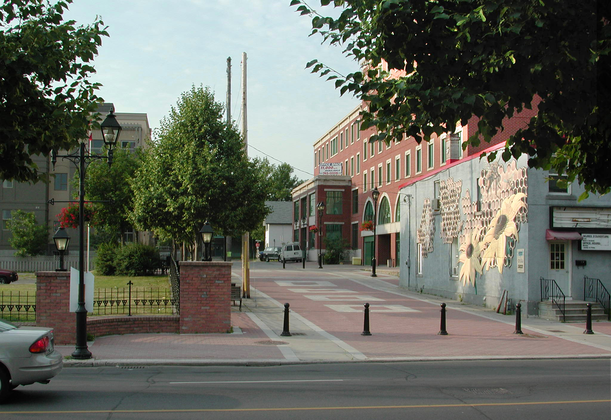 An unplanned, urban cul-de-sac in Ottawa that was created to relieve congestion on a narrow,long Main Street. It excludes cars but is fully permeable to pedestrians, bicycles and wheelchairs. An example of the fused grid model.